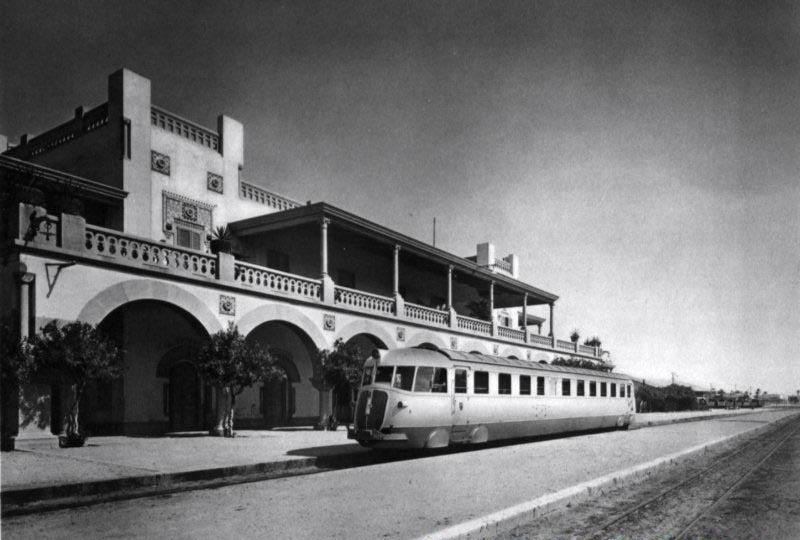 Fiat train at Tripoli's railway central station.